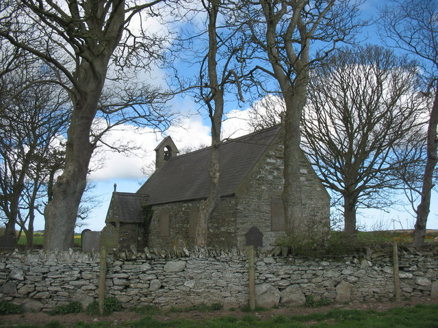 Eglwys Rhosbeirio Church